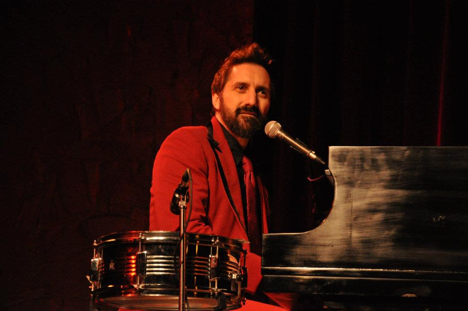 Slash Coleman performs at Portland Story Theatre 2012.